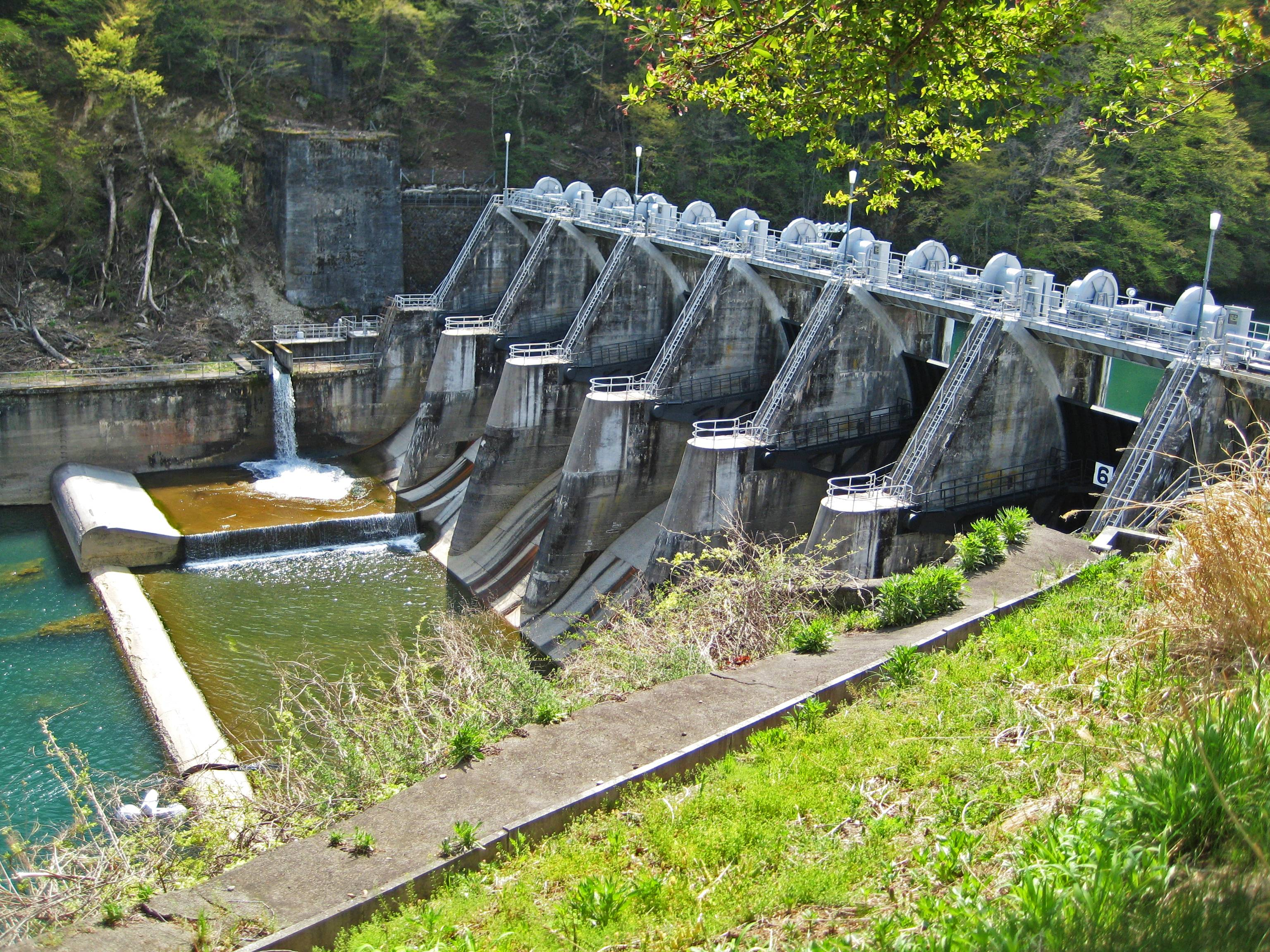 Tokiwa Dam.